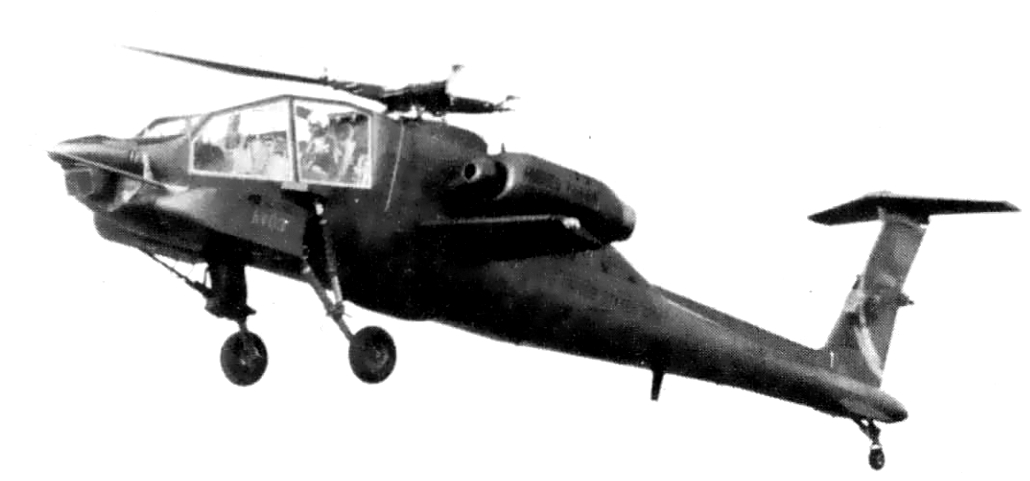 Hughes YAH-64 prototype ca. 1976